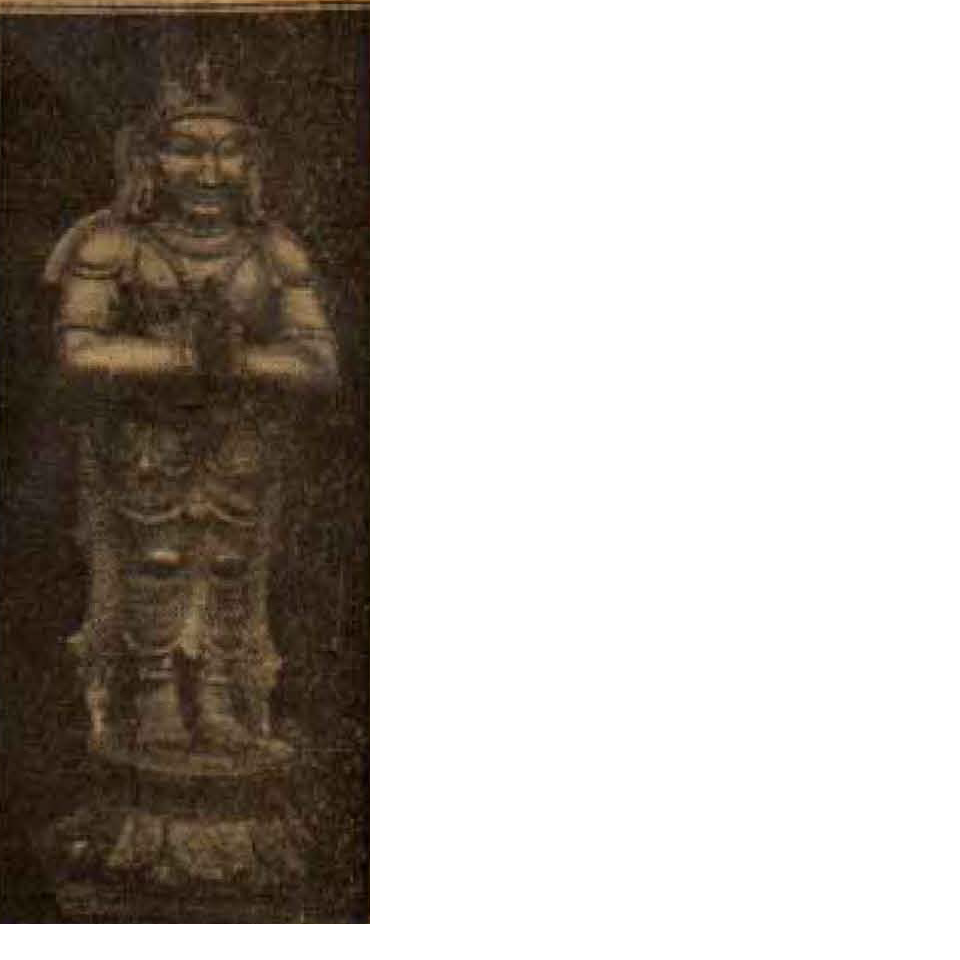 గుగ్గుళుకళియారు